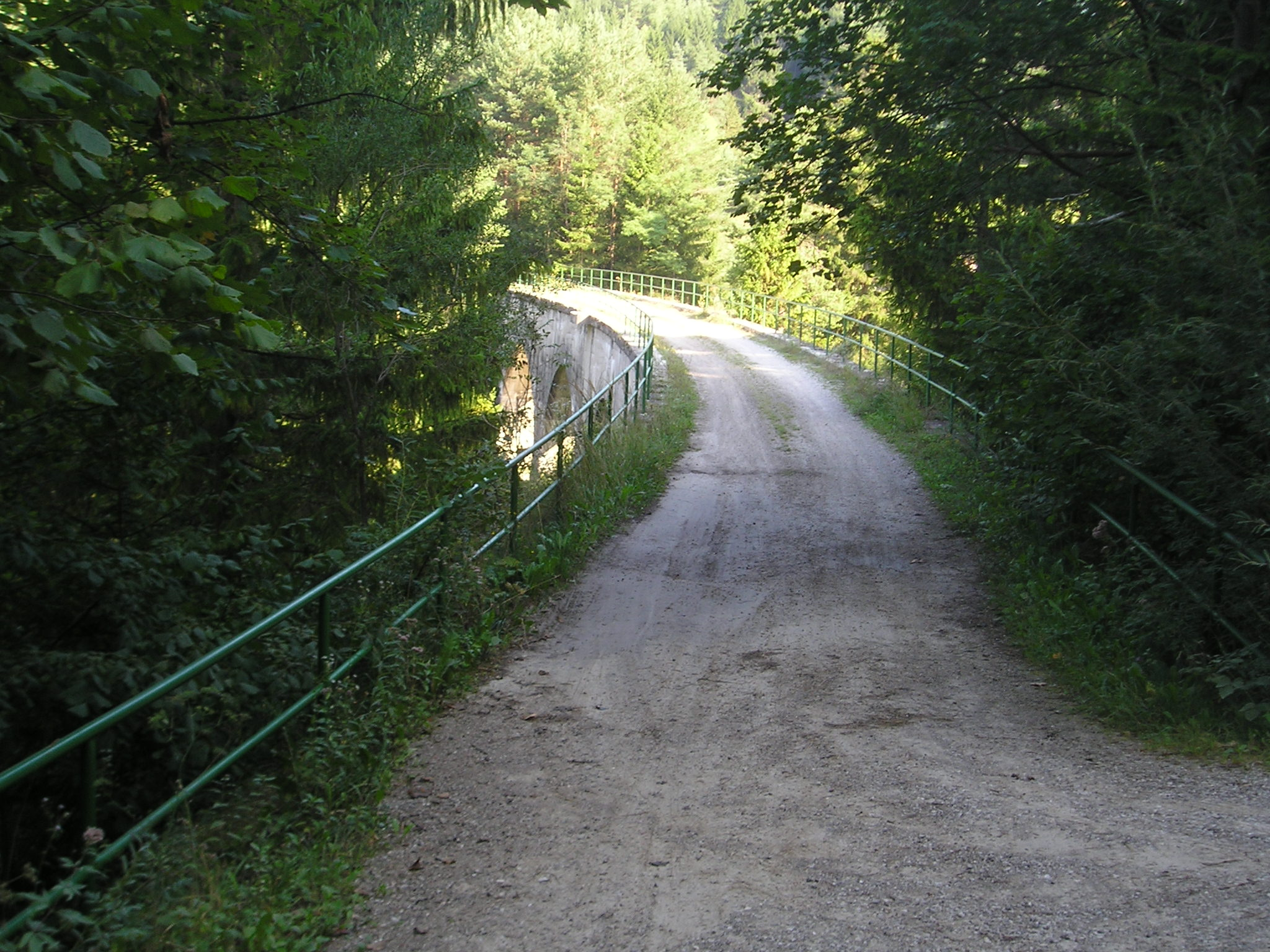 Former railway (Lavanttalbahn) viaduct Gornji Dolič near the village of the same name, view from south to north. Today it is used for local road traffic.